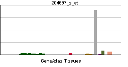 Gene expression pattern of the CHGA gene.